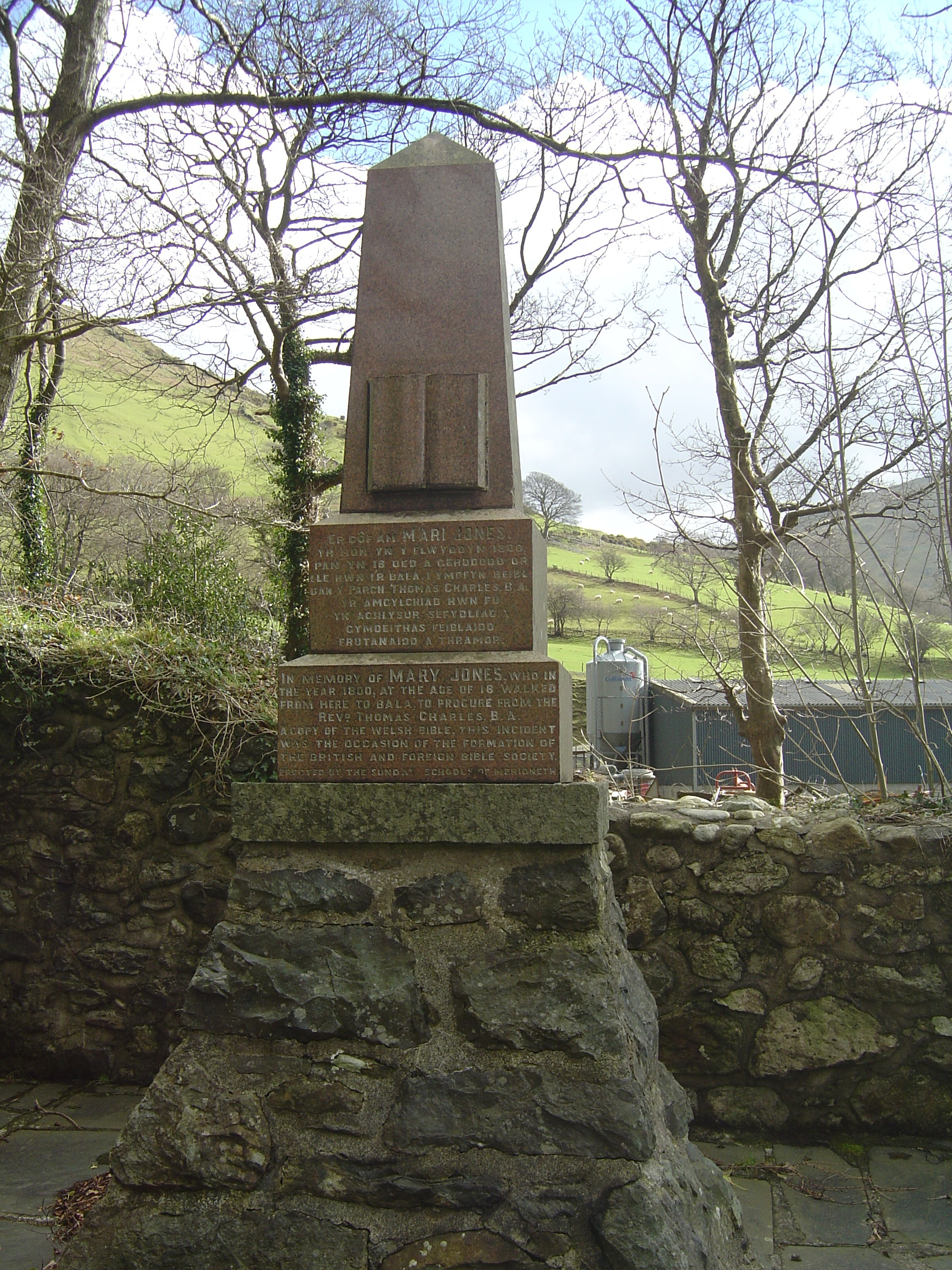 Memorial to Mary Jones in Llanfihangel-y-pennant